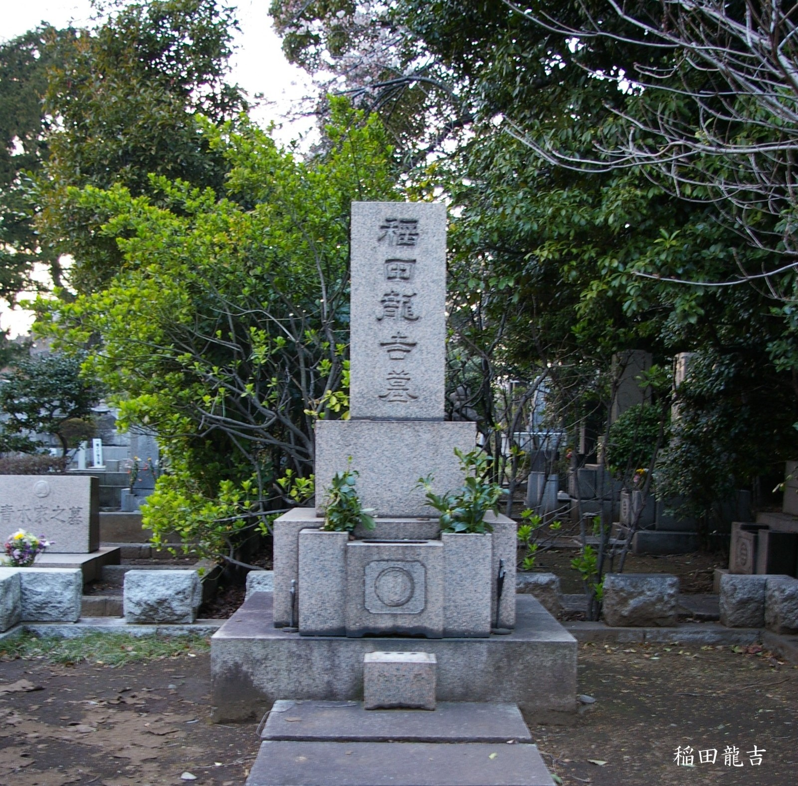 Gravestone of Ryukichi Inada. It was taken in Tokyo.